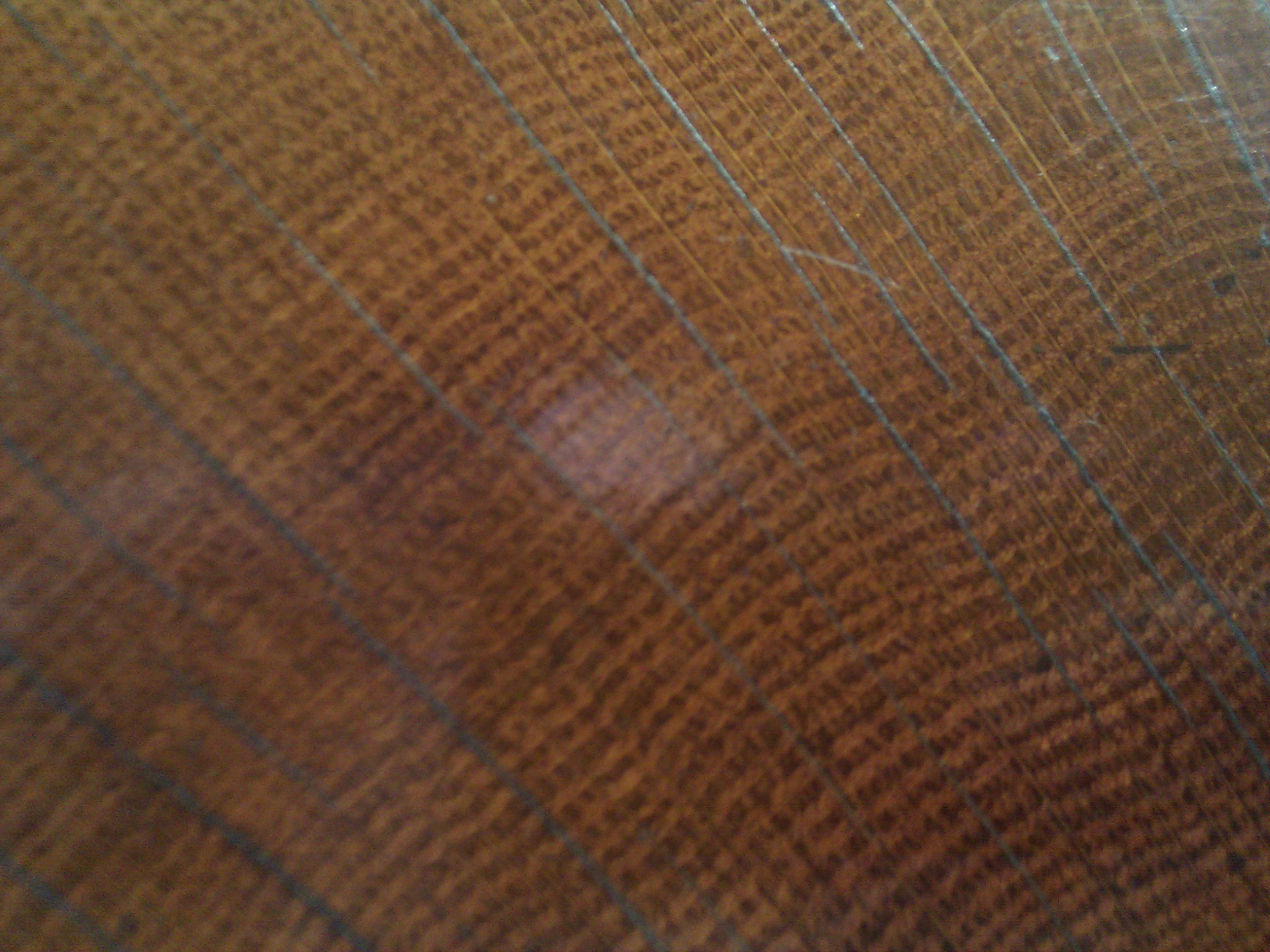 Mingo Oak Cross-section/Slice. At the time this tree was cut in Mingo County, West Virginia, it was the oldest white oak in the United States. This slice currently resides in the West Virginia Davis College. When it was cut in 1938 it was estimated to be around 584 years old. This image is a close-up view of the growth rings.